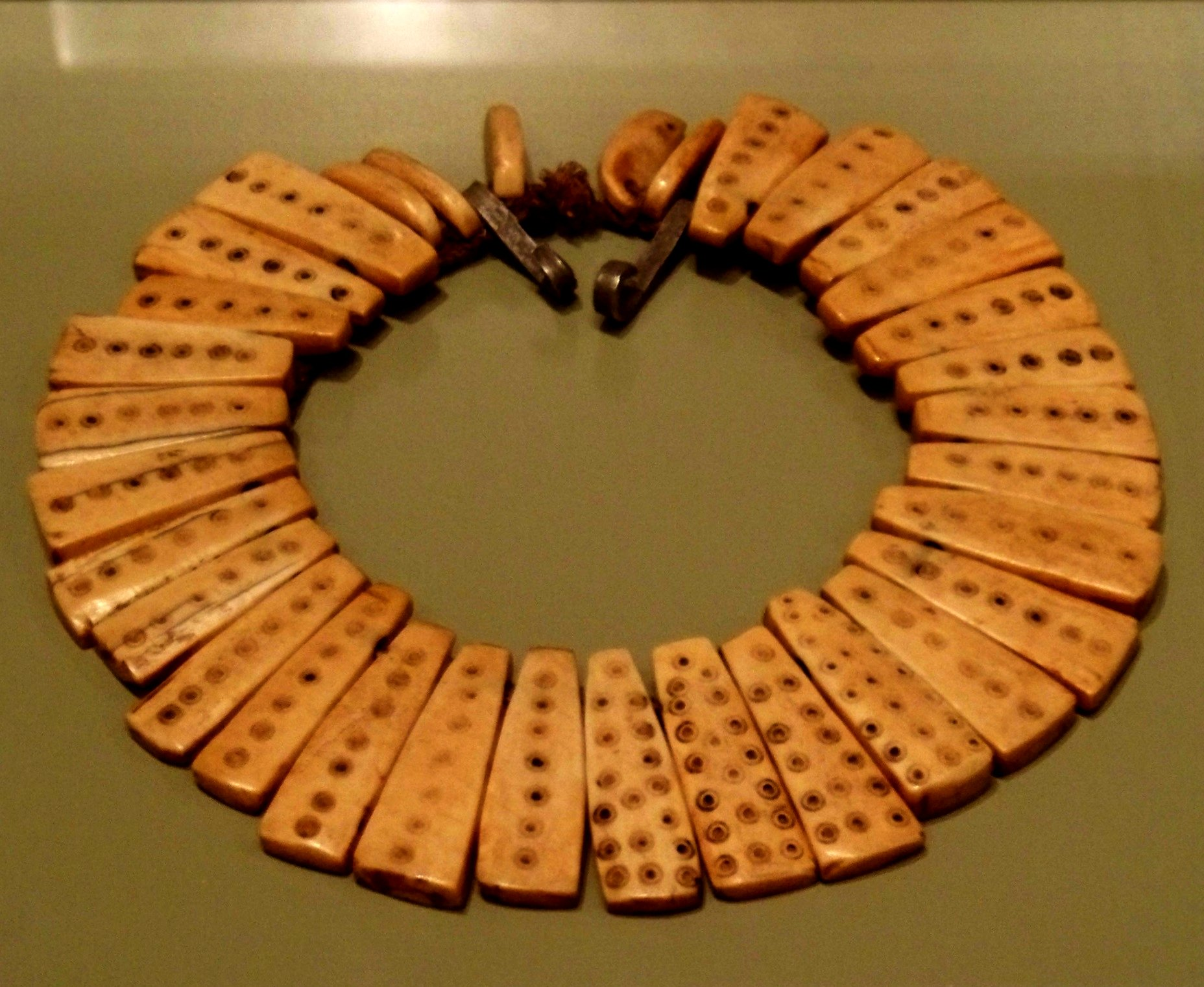 necklace Culture or people Lega people Creation date 1901-1930 Materials ivory, fiber, metal Dimensions 33 x 2 1/4 x 1/2 in. Credit line Gift of Walter E. and Tekla B. Wolf Accession number 1992.311 This necklace may have been part of the jewelry belonging to the Bwami religious and social organization. It is made of elephant ivory and the shape of each piece may refer to leopard’s teeth. Ivory jewelry, such as this, is worn as a symbol of status and rank within the organization. Wikipedia Loves Art at the Indianapolis Museum of Art This photo of item # 1992.311 at the Indianapolis Museum of Art was contributed under the team name "Opal_Art_Seekers_4" as part of the Wikipedia Loves Art project in February 2009. Indianapolis Museum of Art The original photograph on Flickr was taken by Forever Wiser—please add a comment to the original Flickr page whenever a use has been made on Wikipedia or another project. Project galleries on Flickr: this institution, this team